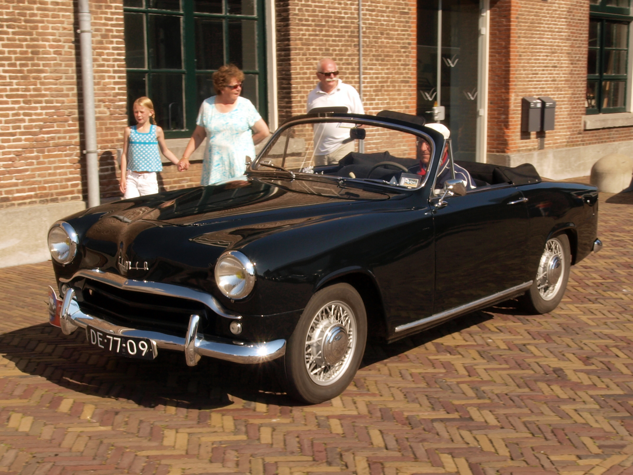 Photographed at Den Helder, The Netherlands. OLYMPUS DIGITAL CAMERA